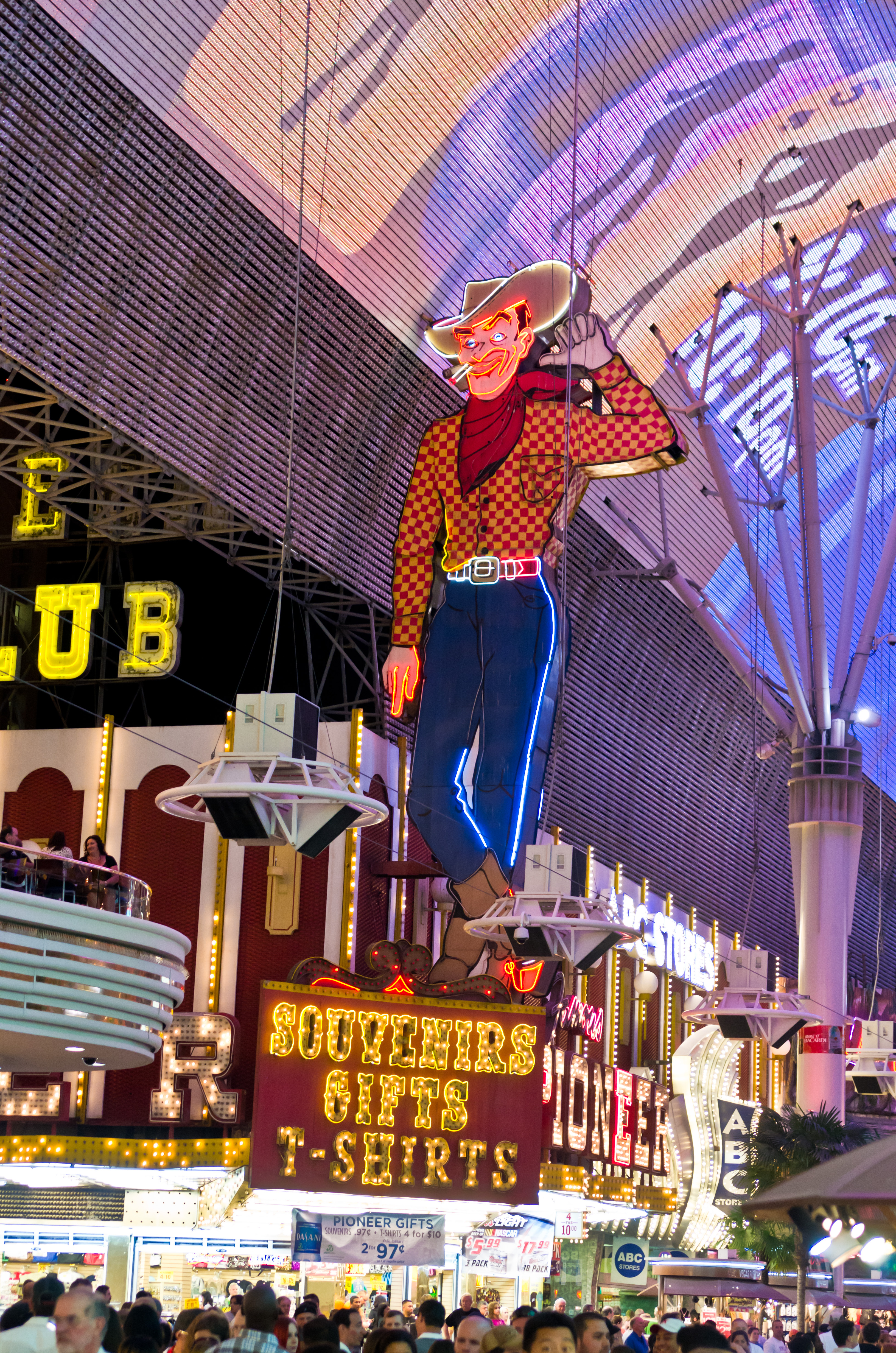 A view of the Fremont Street Experience in Downtown Las Vegas, Nevada — showing Vegas Vic, a 40 feet (12 m) tall neon sign. The sign was built in 1951 for the Pioneer Club on Fremont Street, became a well-known symbol of Las Vegas, and was restored around 1998 by the Neon Museum Las Vegas. It was designed by Pat Denner, and fabricated by the Young Electric Sign Company. The sign was originally animated: the cowboy's left hand waved, his eye winked, the cigarette moved, and smoke rings emerged from his mouth.